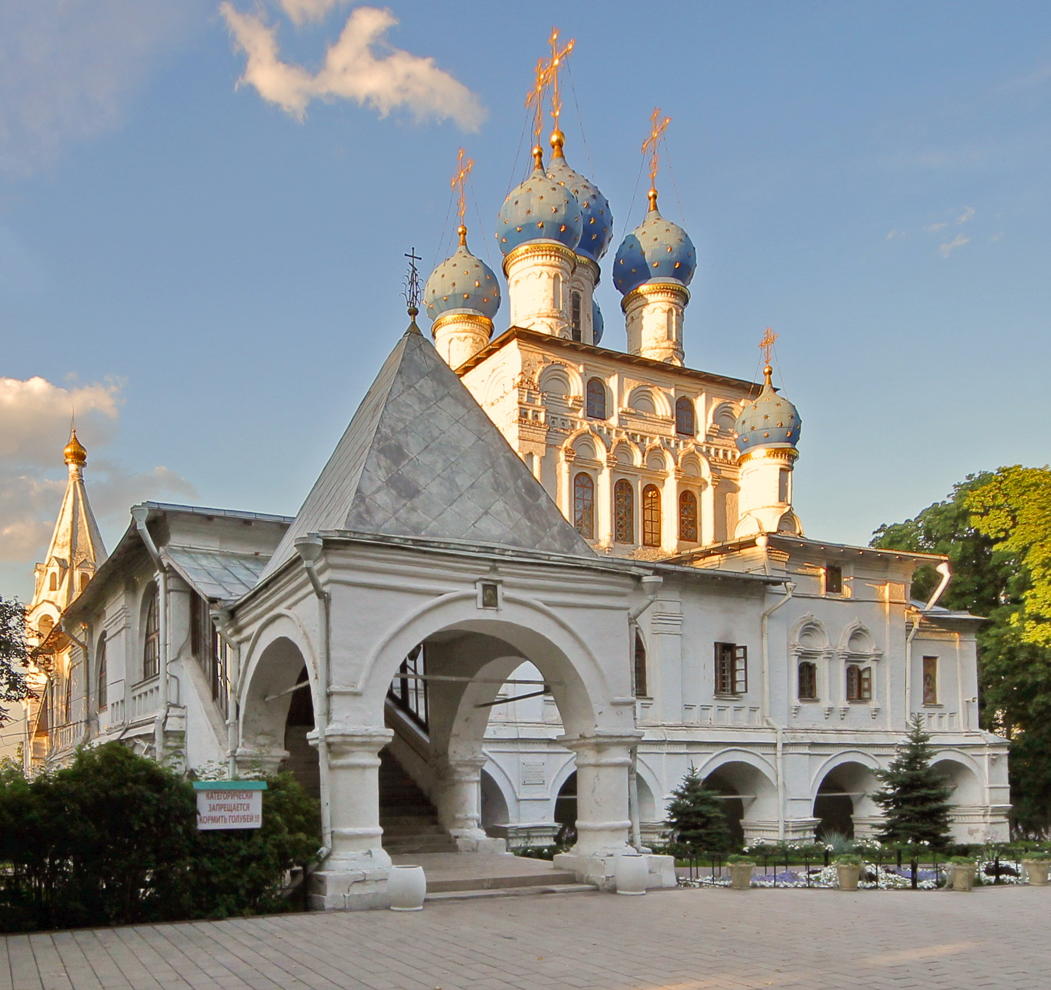 Church of Our Lady of Kazan in the Kolomenskoe Museum Reserve in Moscow